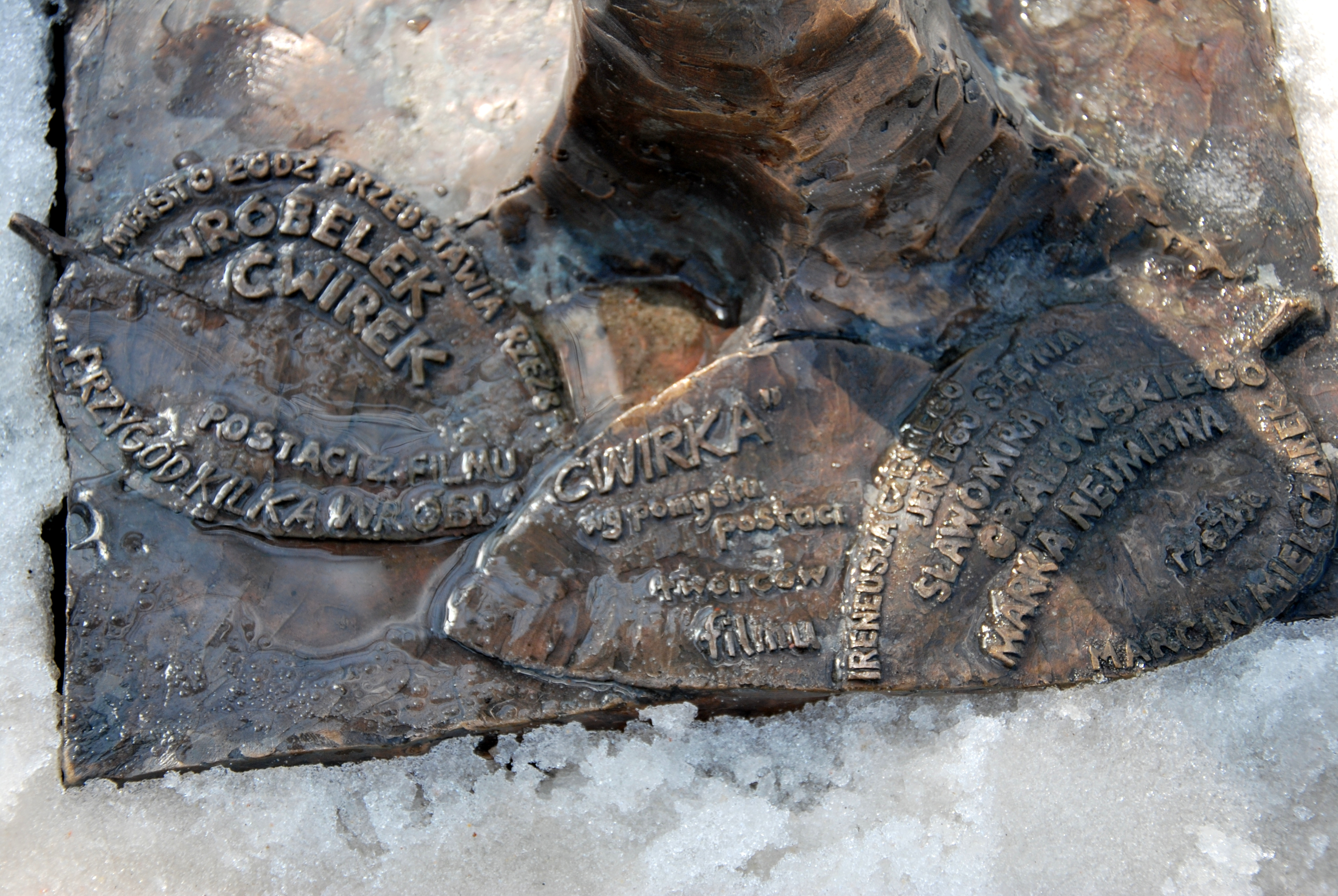 Ćwirek Sparrow sculpture - plaque, Łódź Źródliska Park